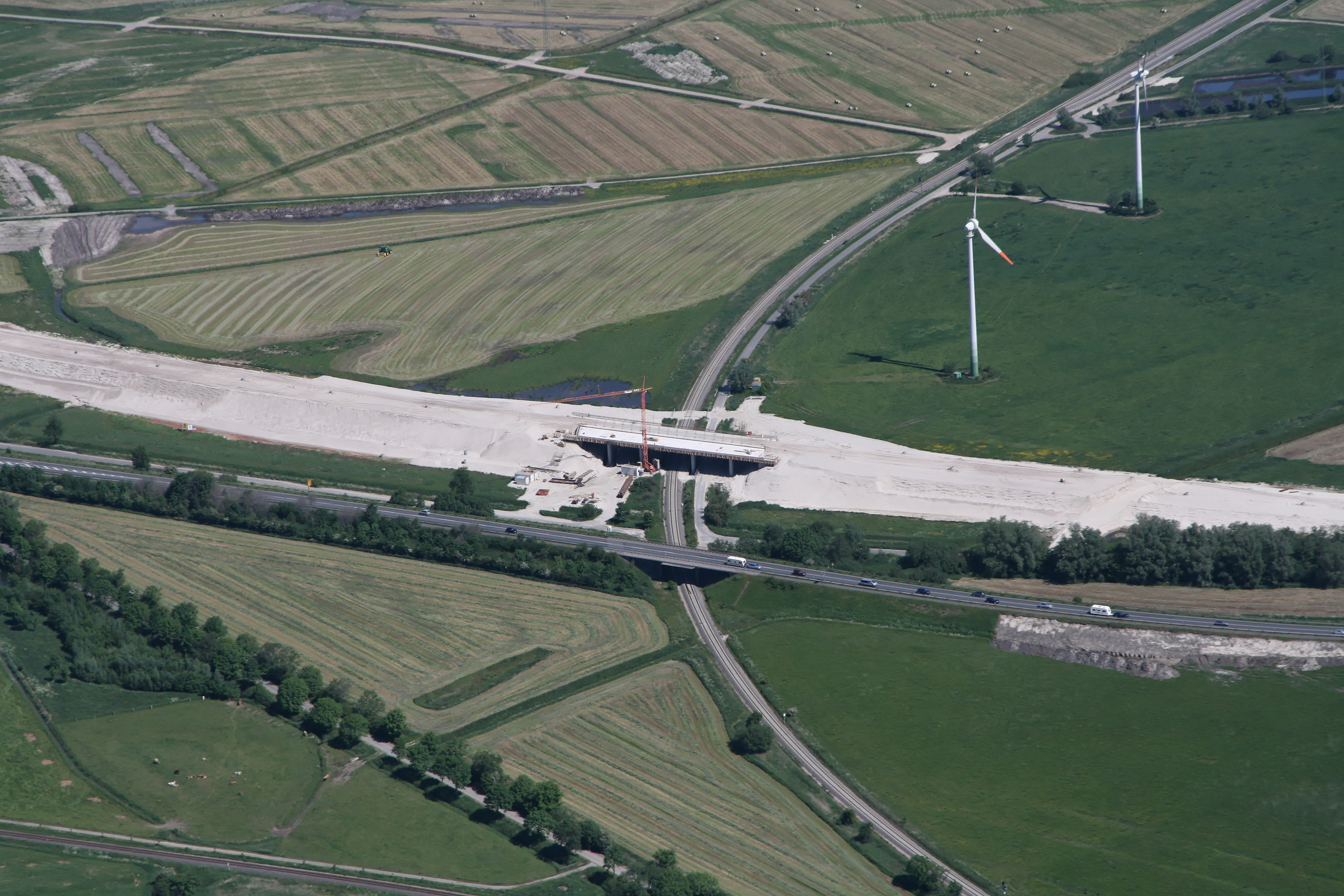 A aerial photograph of new Bridge B210 eastly Schortens.